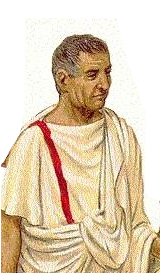 An equestrian wearing his tunic, the Angusticlavia